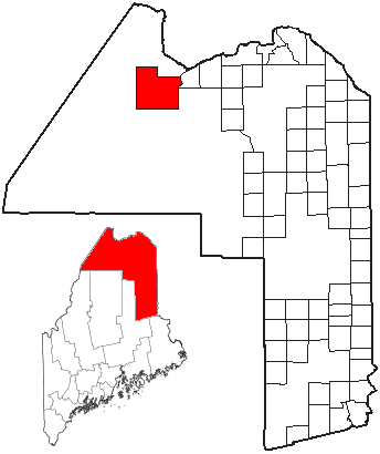 Adapted from U.S. Census Bureau maps (American FactFinder) and Wikipedia's ME county maps by Bumm13.